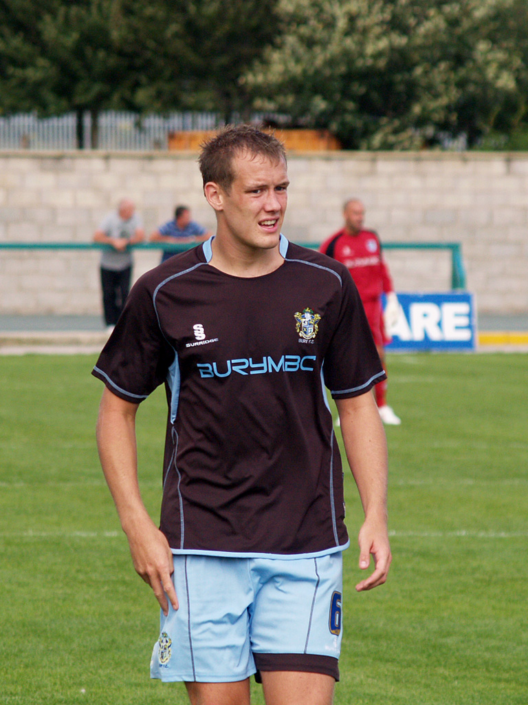 Bury FC defender Ryan Cresswell moves forward for a corner during the Northwich Victoria vs. Bury pre-season friendly at The Marston’s Arena, home of Northwich Victoria FC. Saturday 2nd August 2008